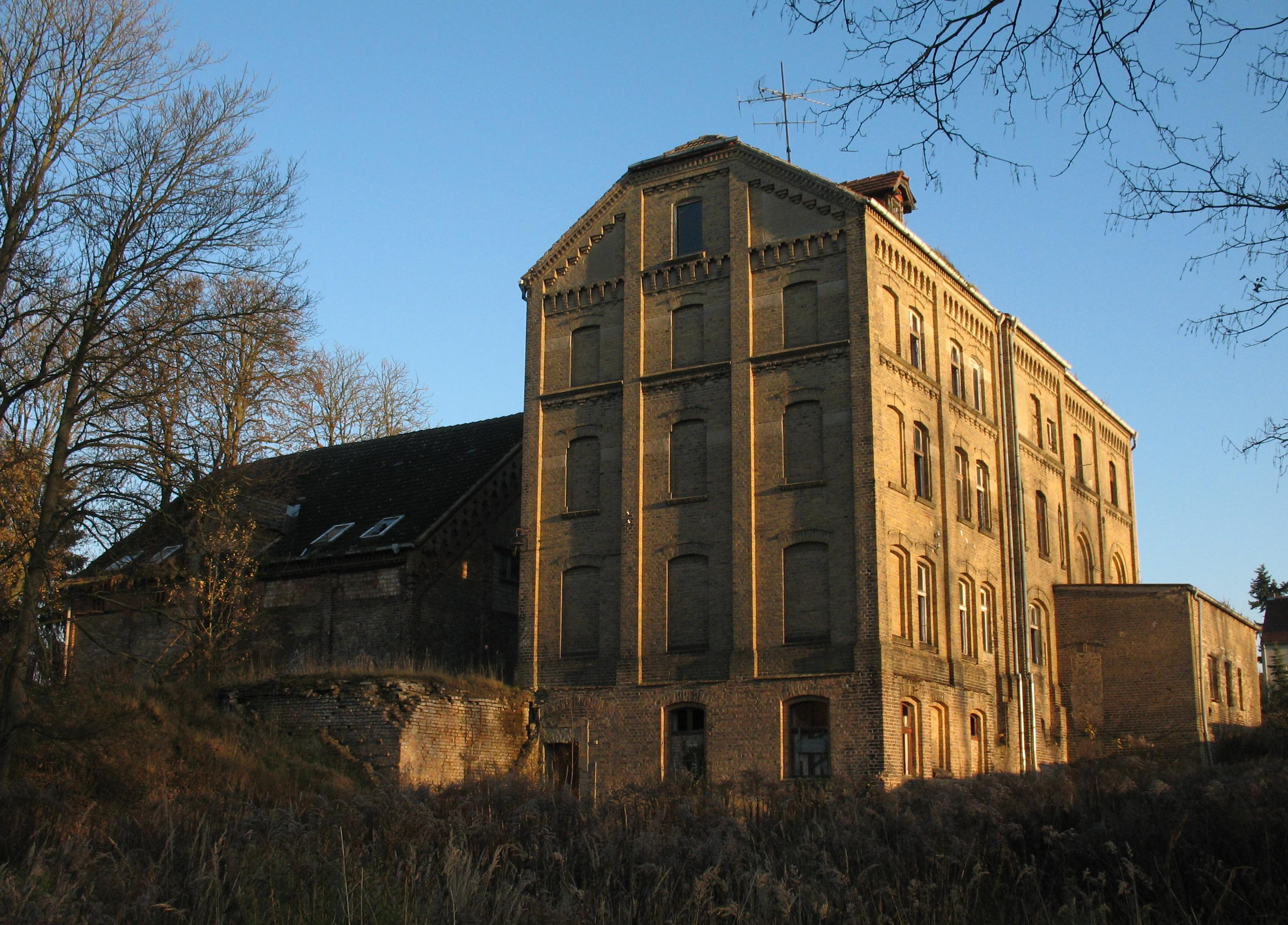 Former brewery in Templin in Brandenburg, Germany